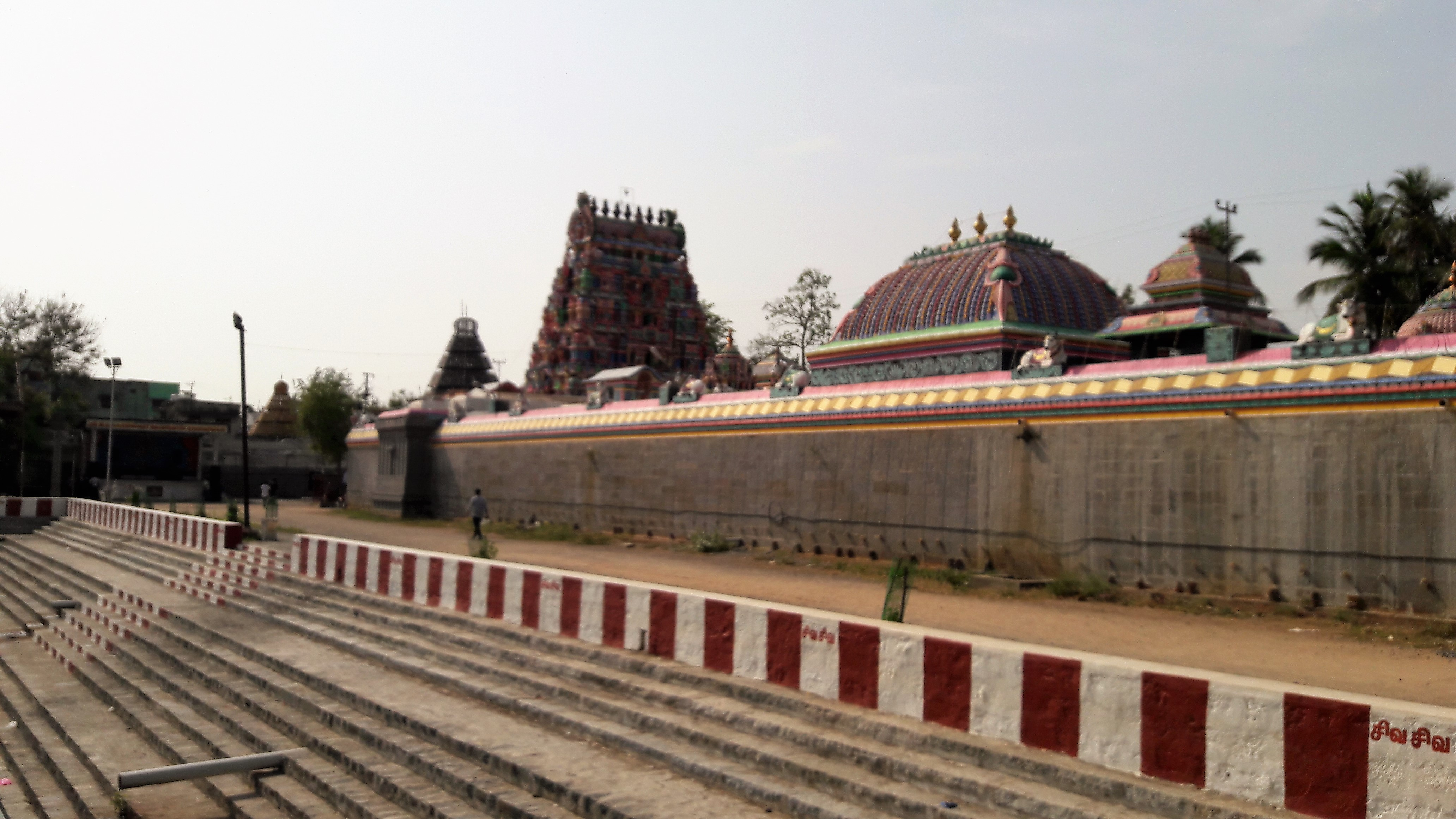 Kameeswarar temple, Villayanur